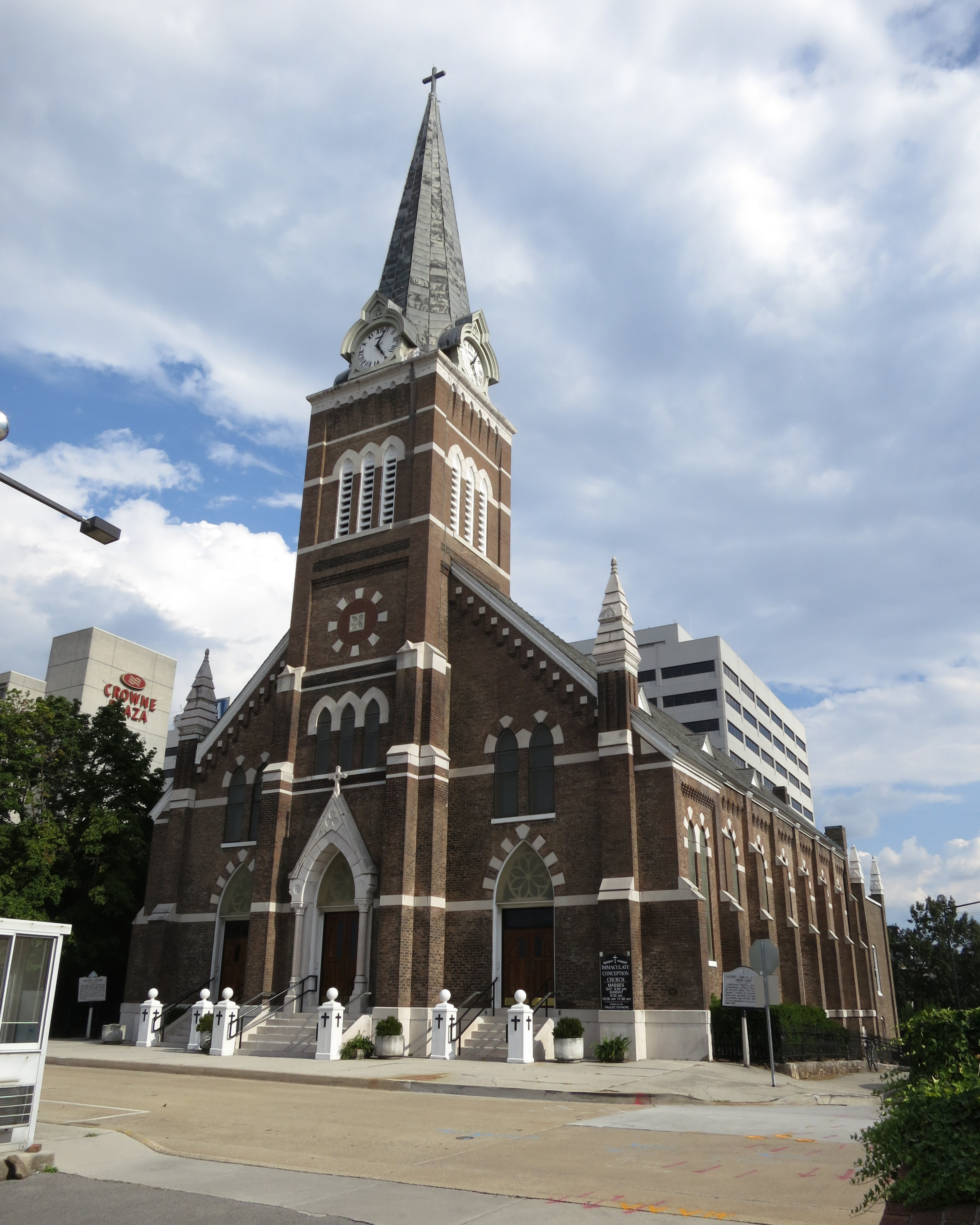 Immaculate Conception Catholic Church (Knoxville, Tennessee) - exterior 2